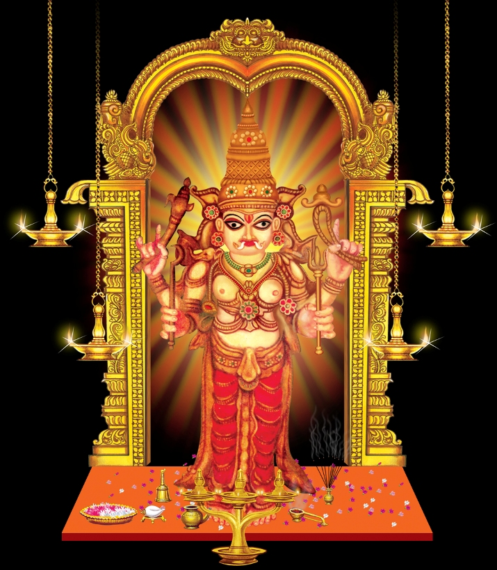 Edava palakkavu bhagavathy's photo is a god in edava palakkavu temple